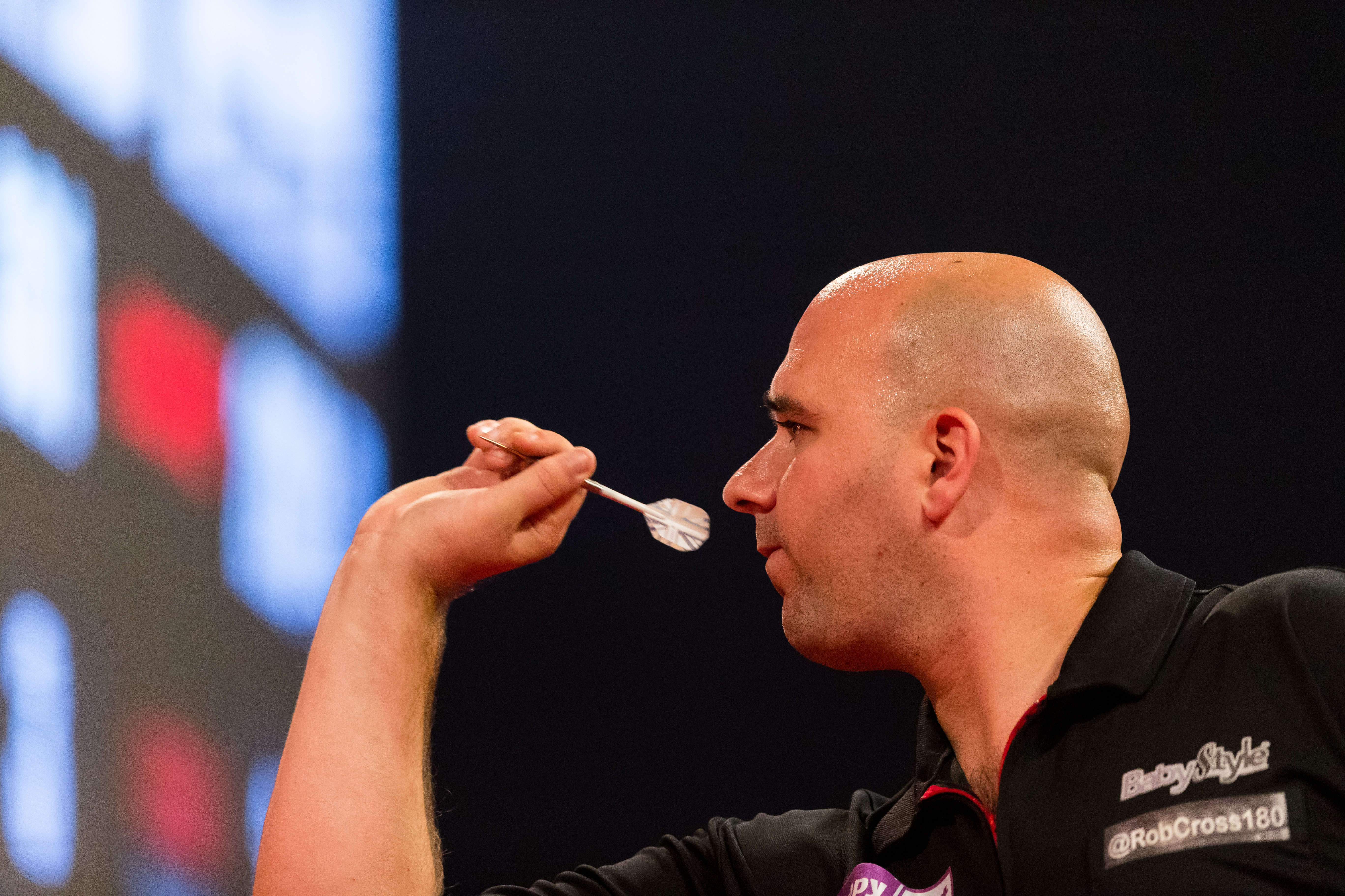 Final: [14] Rob Cross (ENG) 3:6 [1] Michael van Gerwen (NED) during Professional Darts Corporation (PDC), German Darts Grand Prix (GDGP) at Maimarkthalle, Mannheim, Baden-Württemberg, Germany on 2017-09-10, Photo: Sven Mandel